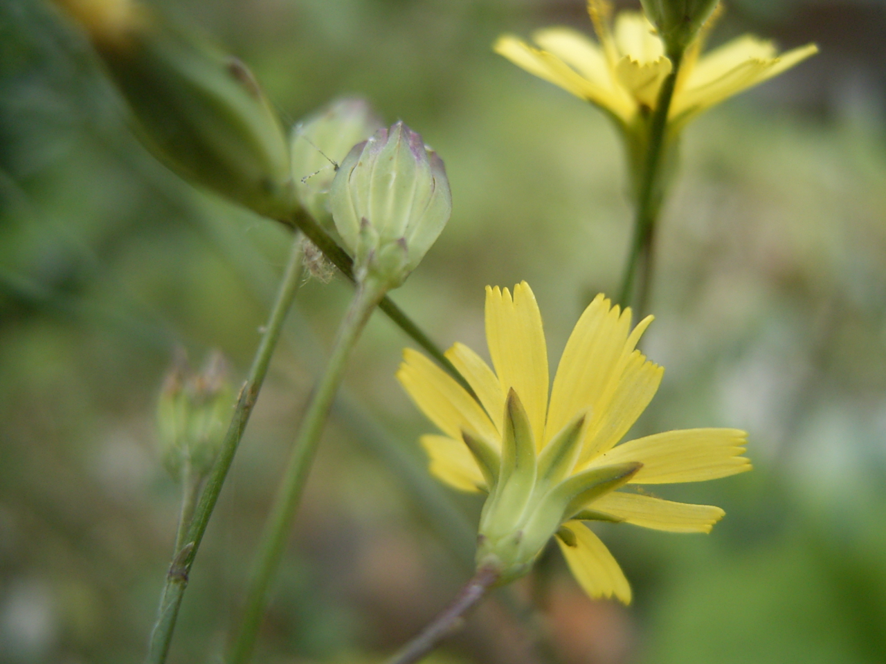 Deze foto toont het bloemhoofdje van de Akkerkool. Ik nam de foto op 10 augustus 2005 in op bedrijventerrein Goudse poort in Gouda. This photo shows the flowerhead of Lapsana communis. I took the pic on Aug 10, 2005 in Gouda, Netherlands.